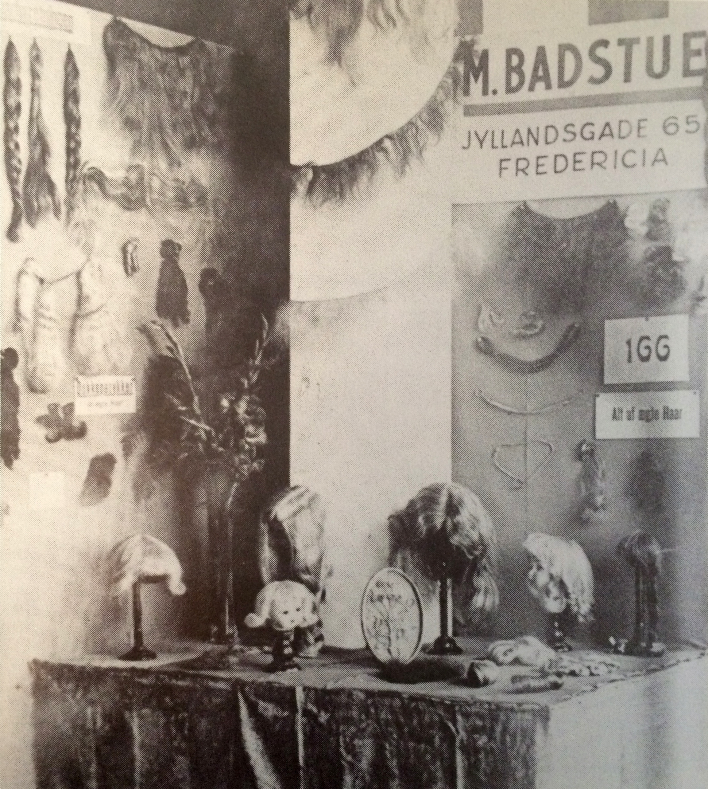 The Danish hair dresser and hairworker Kirsten Marie Badstue' stand at a trade fair in the Danish town of Købe. Around 1920